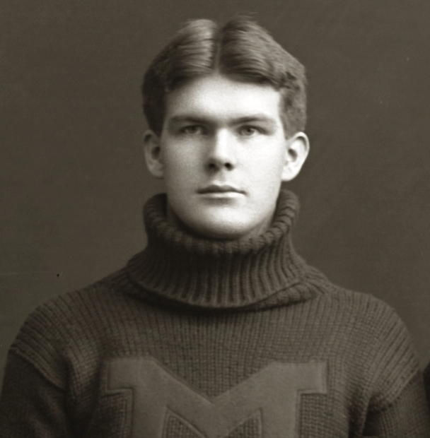 Photograph of Bruce Shorts